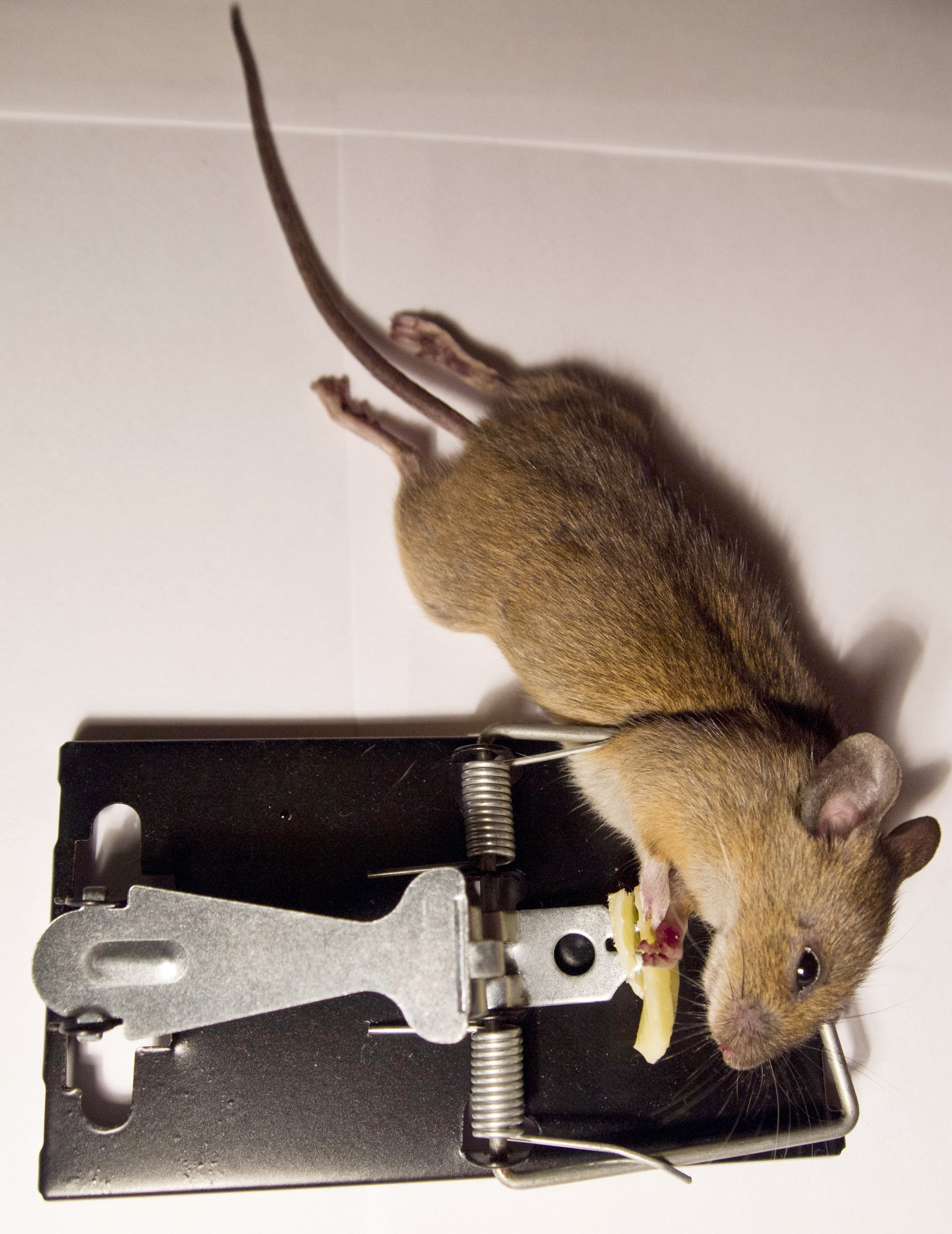 A dead mouse killed by mouse trap with cheese.